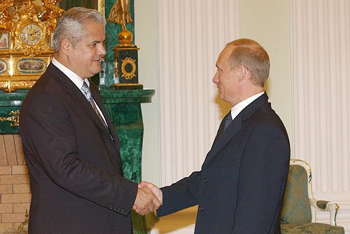 Vladimir Putin meets Romania's Prime Minister Adrian Nastase (July 2004)